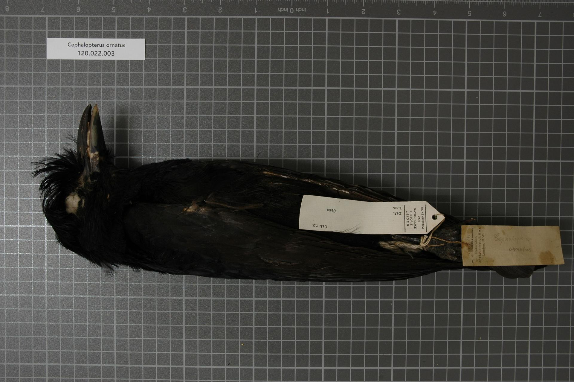 Cephalopterus ornatus Geoffroy St.-Hilaire, 1809